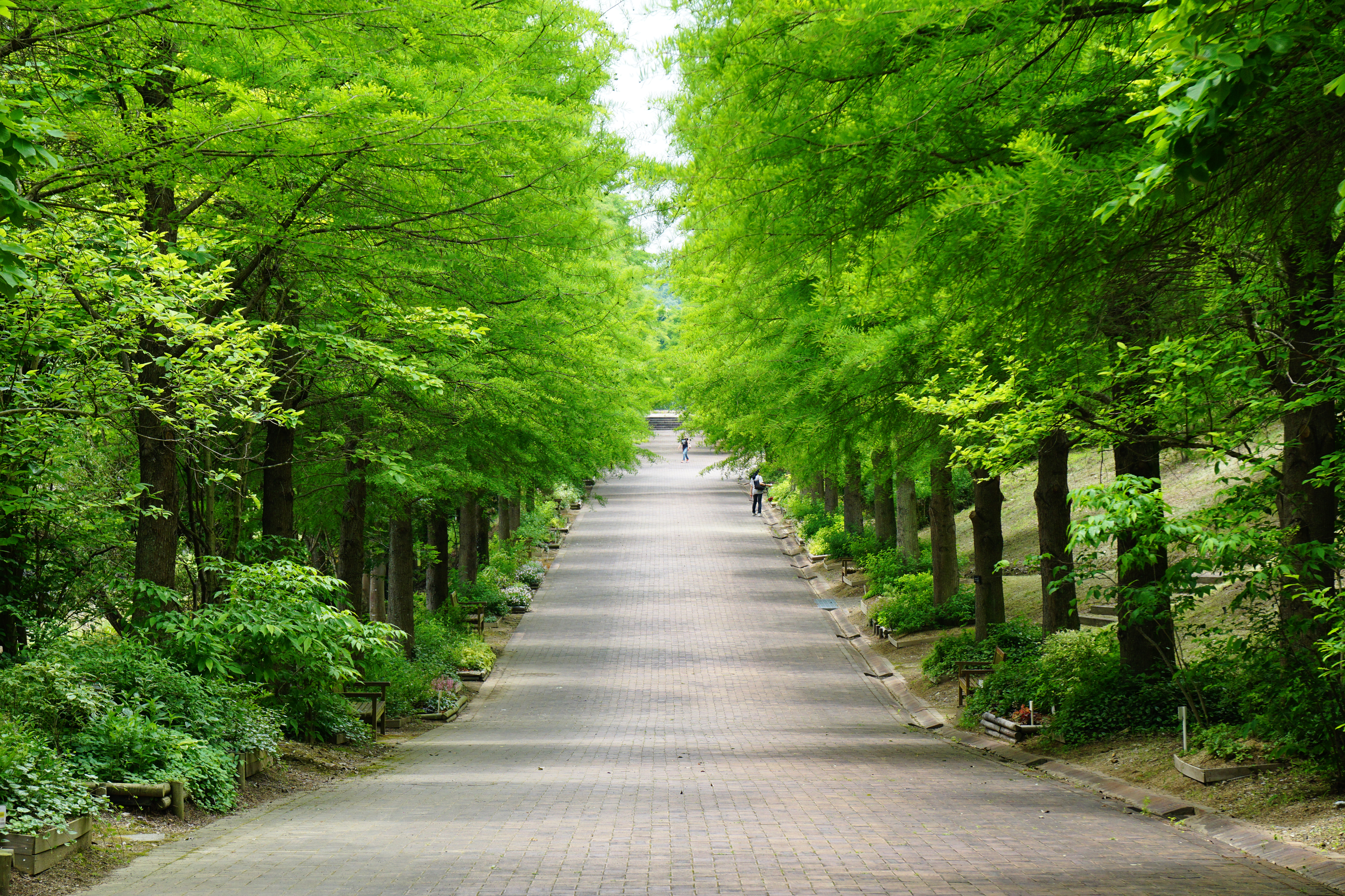 Hyogo Prefectural Harima Central Park in Kato, Hyogo prefecture, Japan.